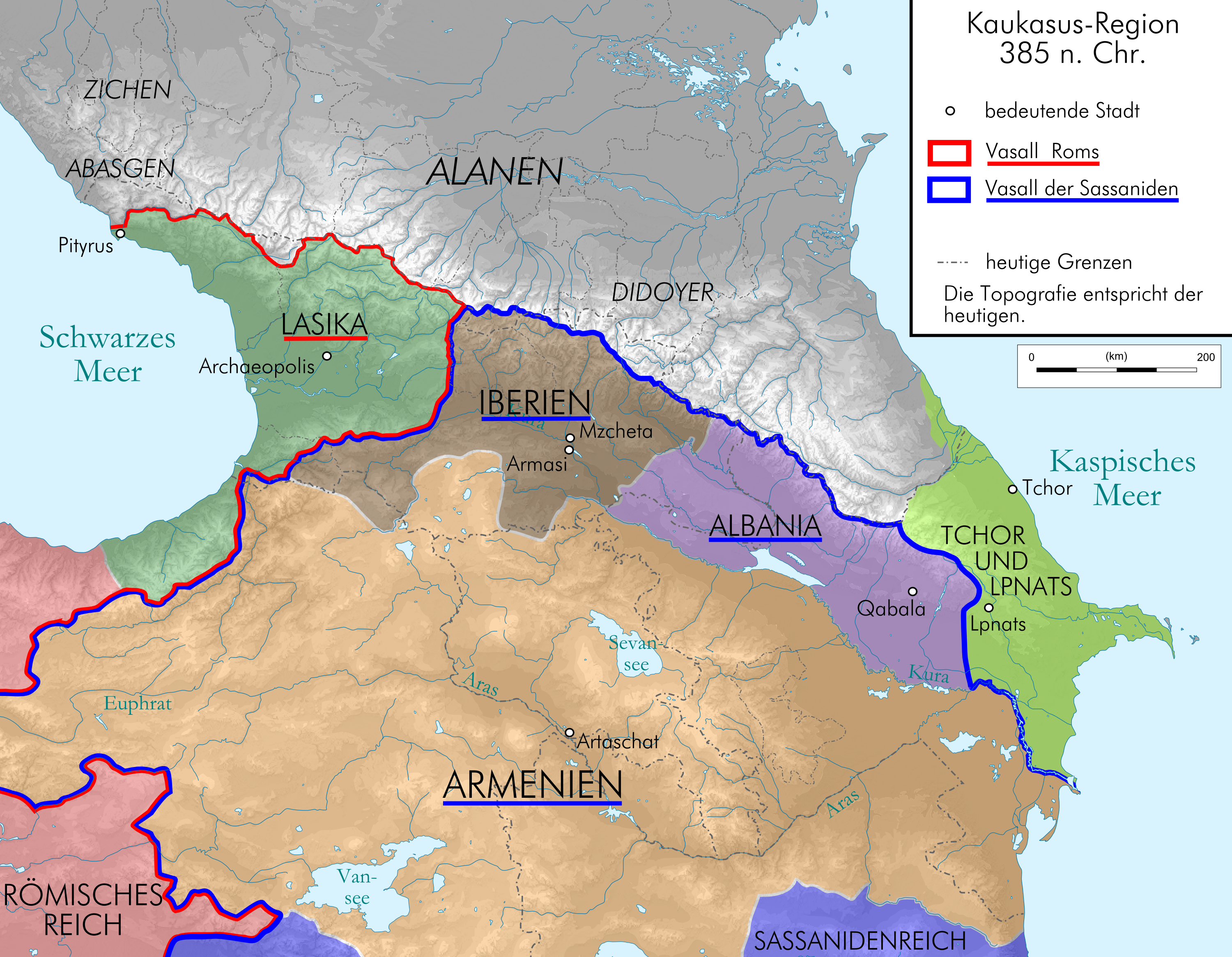 Map of Caucasus around 385 AC in German.